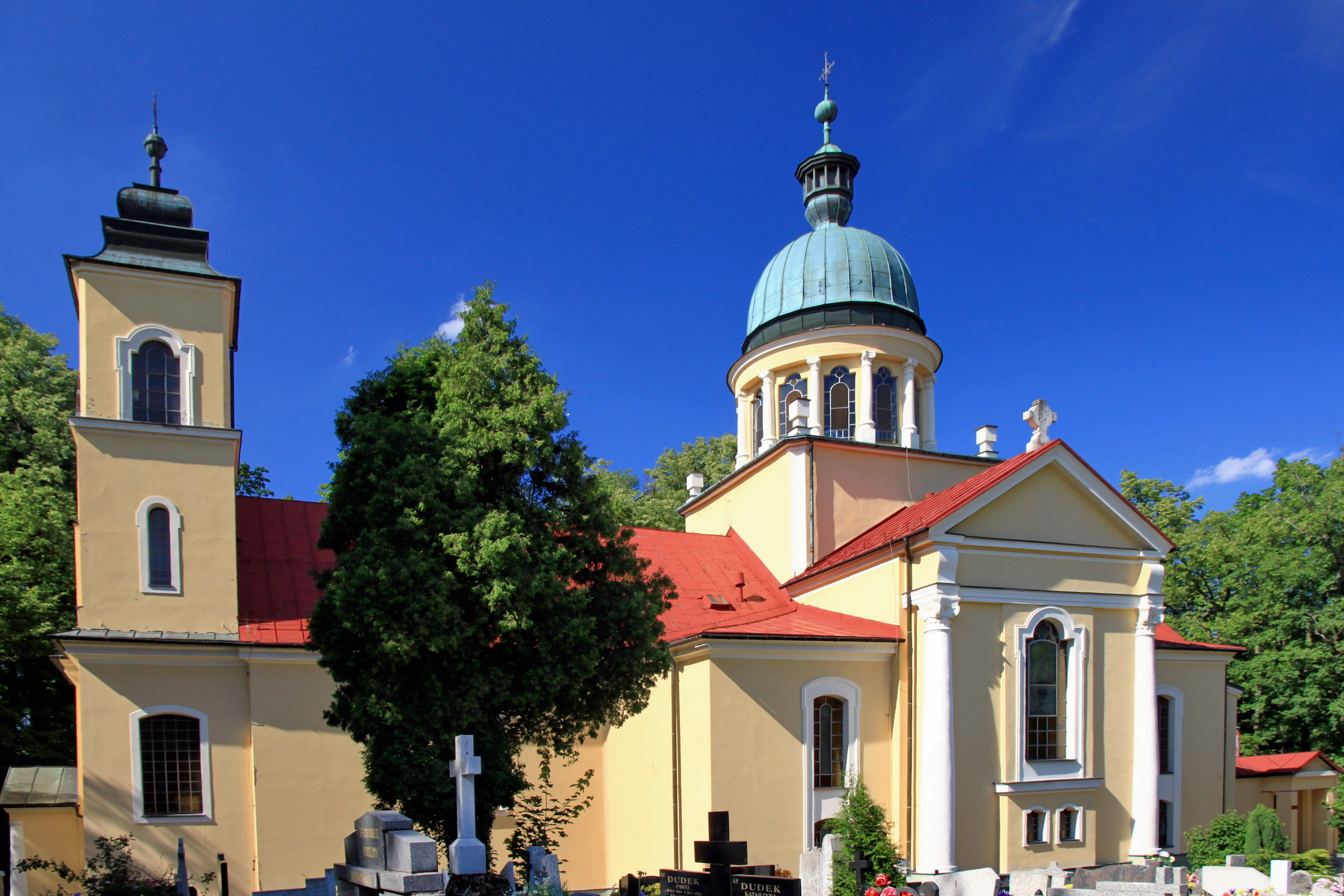 Jaworze, parish church of the Providence of God, build in 1802